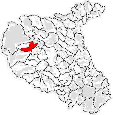 Limits of commune within Vrancea County